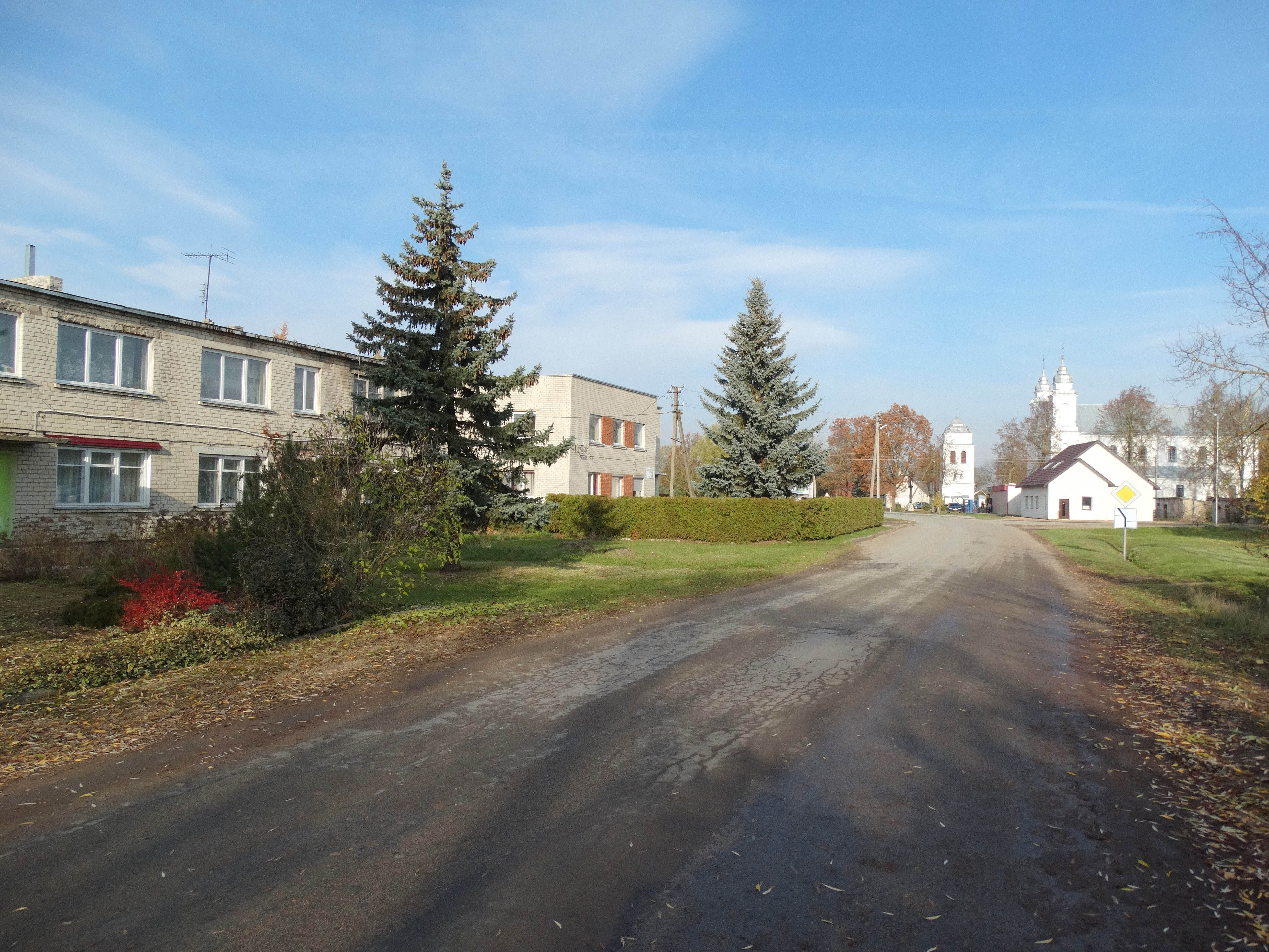 Krinčinas, Pasvalys District, Lithuania